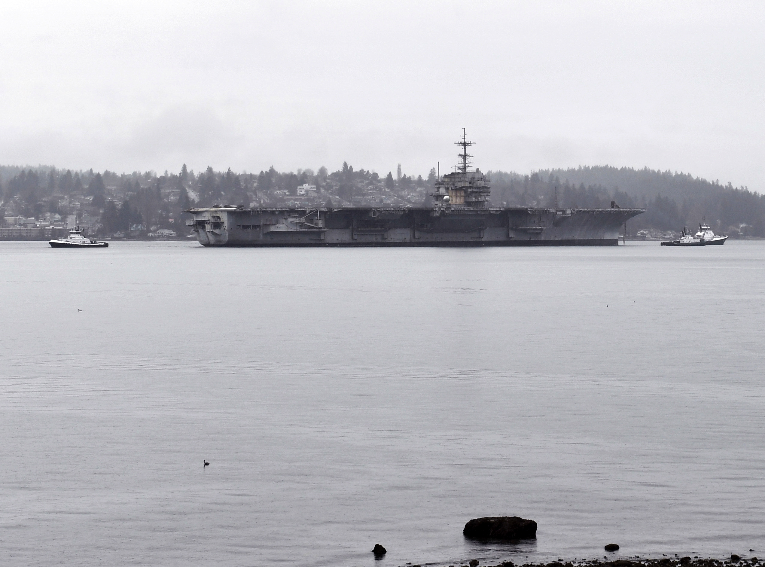 The decommissioned U.S. Navy aircraft carrier USS Independence (CV-62) is towed through the Sinclair Inlet, Washington (USA), en route to Brownsville, Texas (USA), for dismantling by International Shipbreaking Ltd.